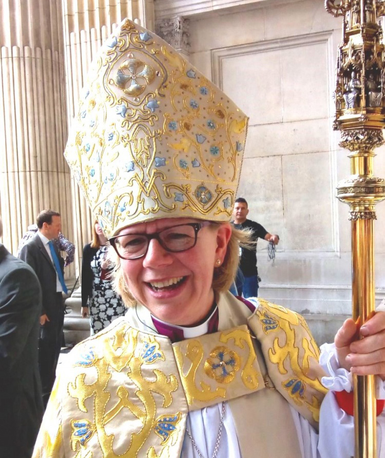 Installation of Bishop of London - Sarah Mullally